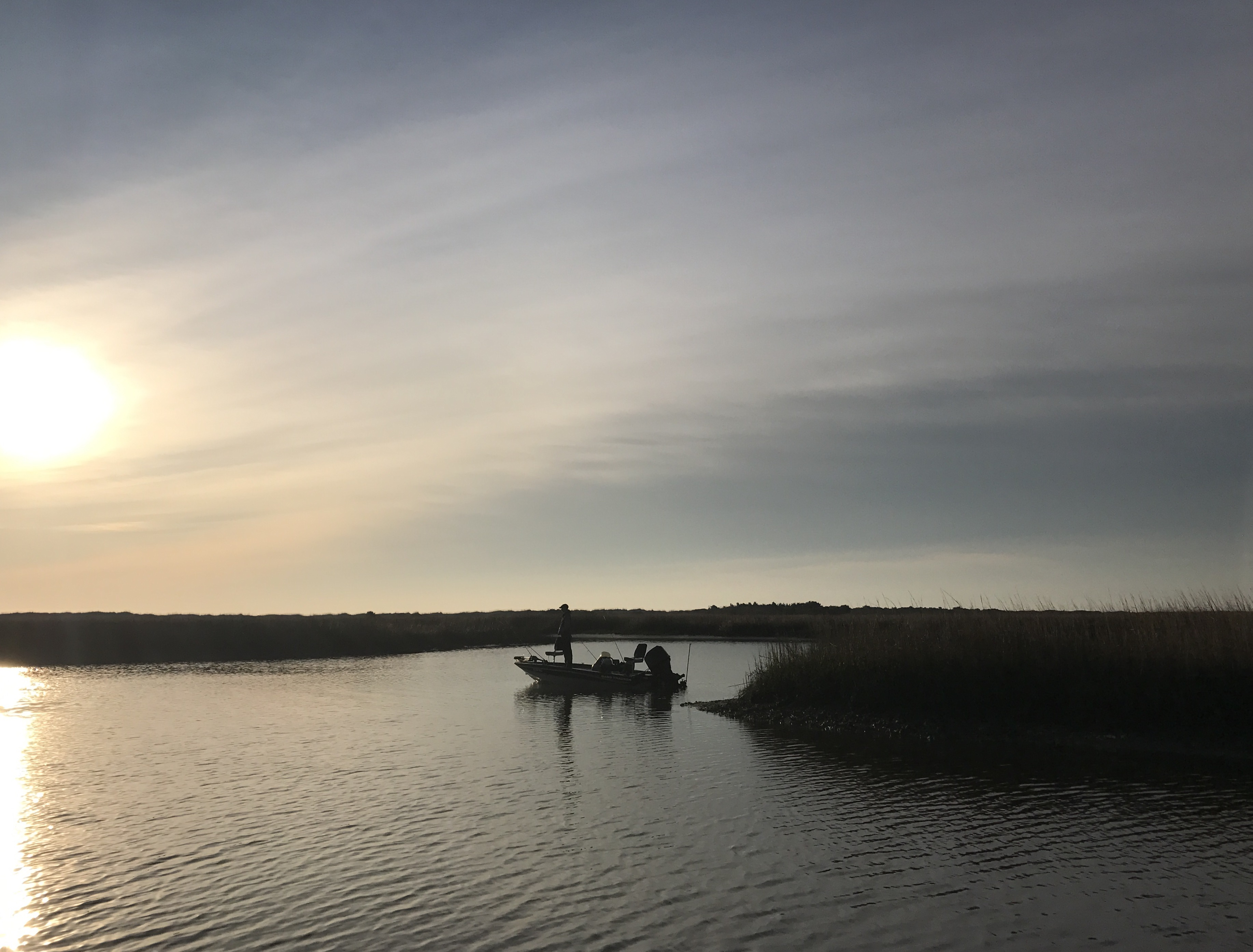 The Creeks Behind Smith Island... below Zekes Island